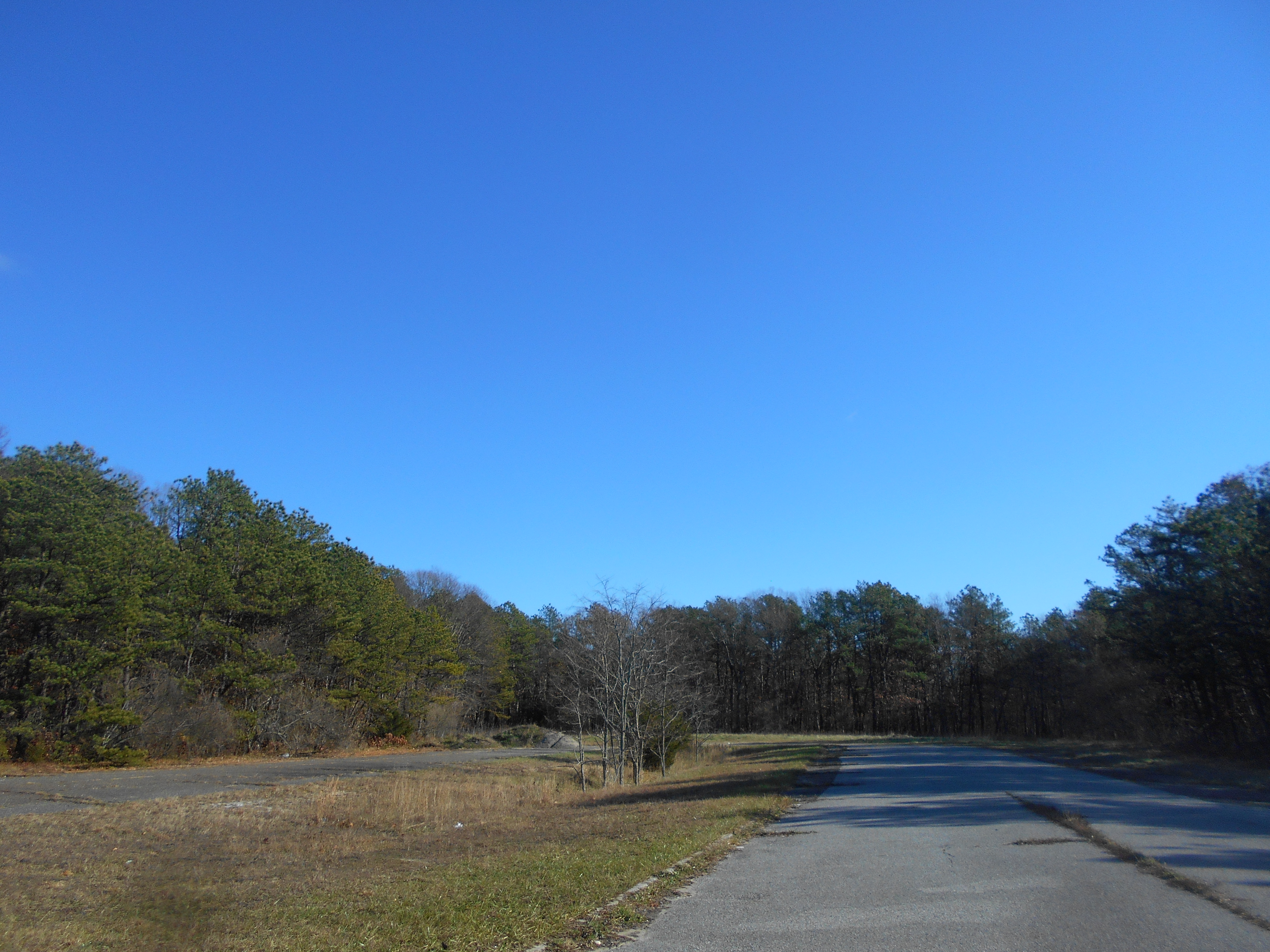 An abandoned piece of a proposed extension of County Route 111 in Suffolk County, New York.